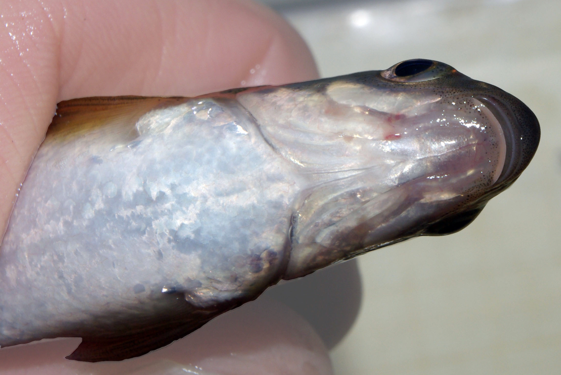 (Parachondrostoma miegii). River Ebro, near Cereceda, Burgos (Spain)